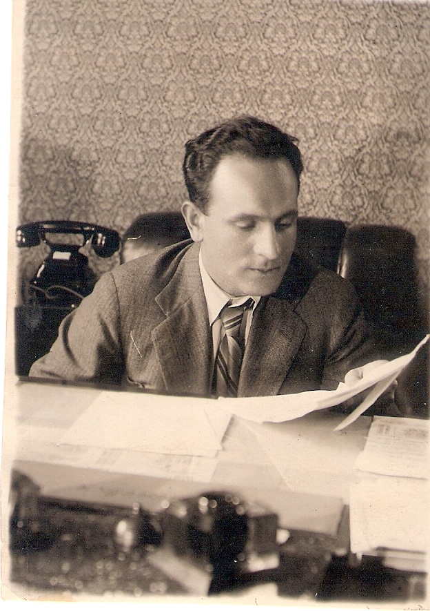 Dr. Kechker Leonid (Jonatan) in his office in First Pavlov State Medical University of St. Peterburg